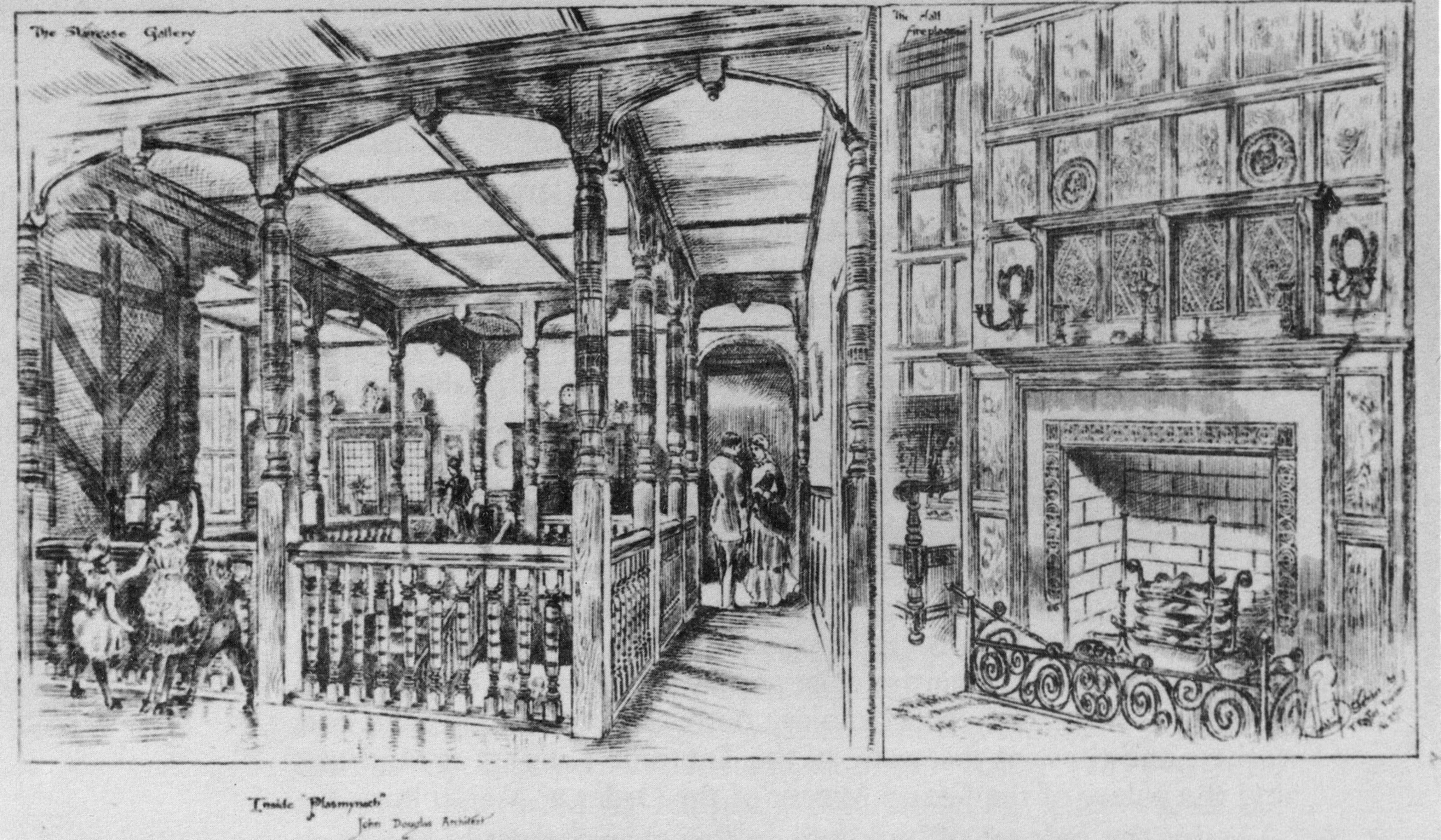 Scanned by the book by me. Shows the staircase gallery on the left and the hall fireplace on the right. Taken from British Architect, 21, 1884, p. 242